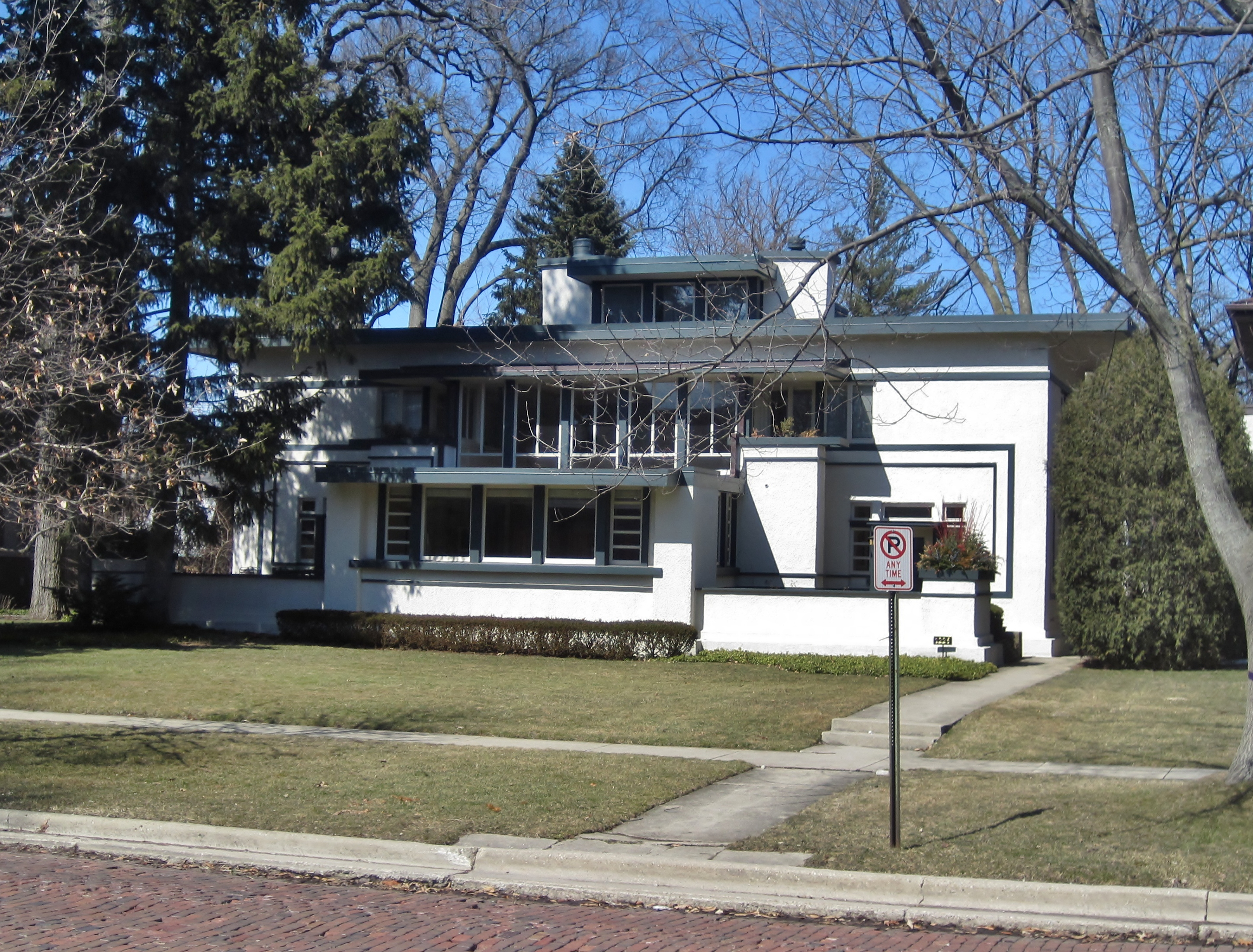 Ralph S. Baker House in the Ouilmette North Historic District (1914).